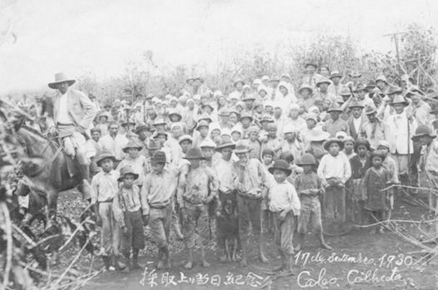 Japanese Workers in Coffee Gathering.jpg